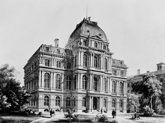 South and west fronts of Old City Hall, Boston, in the Second Empire architecture style, designed by Gridley James Fox Bryant and Arthur Gilman. It was home to the Boston city council from 1865 to 1969.